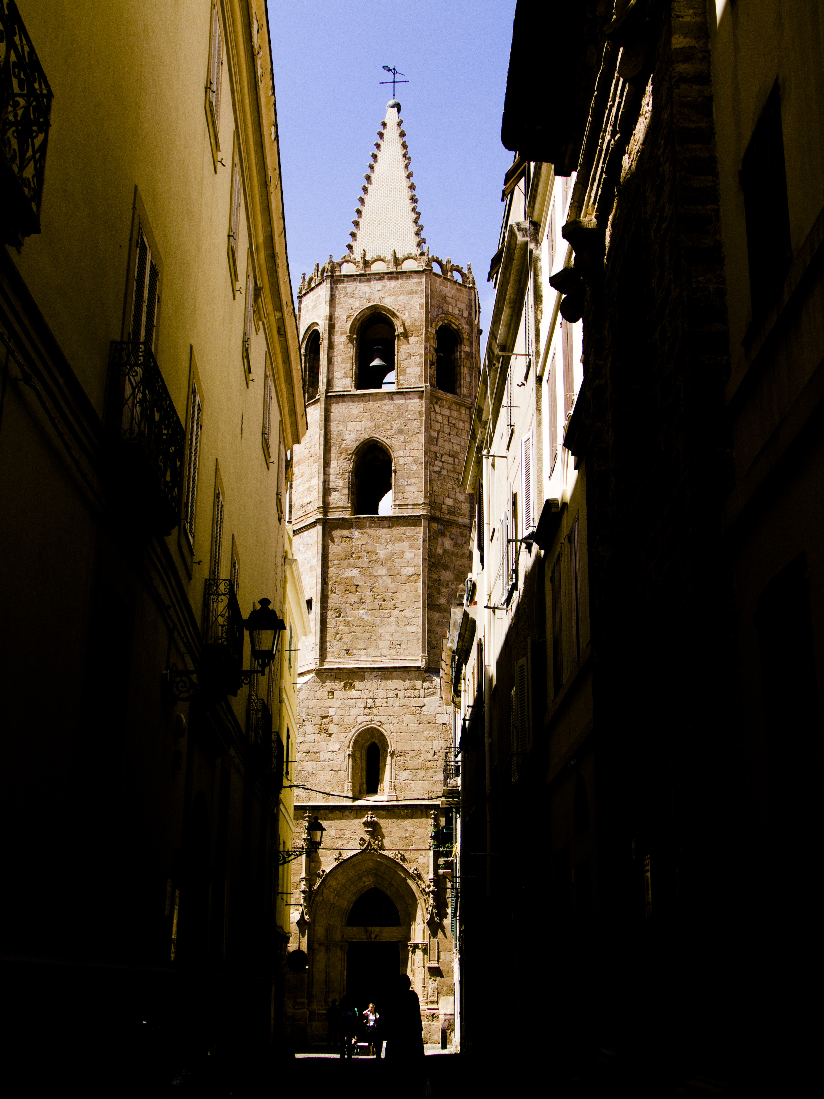 Catalan Gothic cathedral's bell tower in Alghero, Sardinia